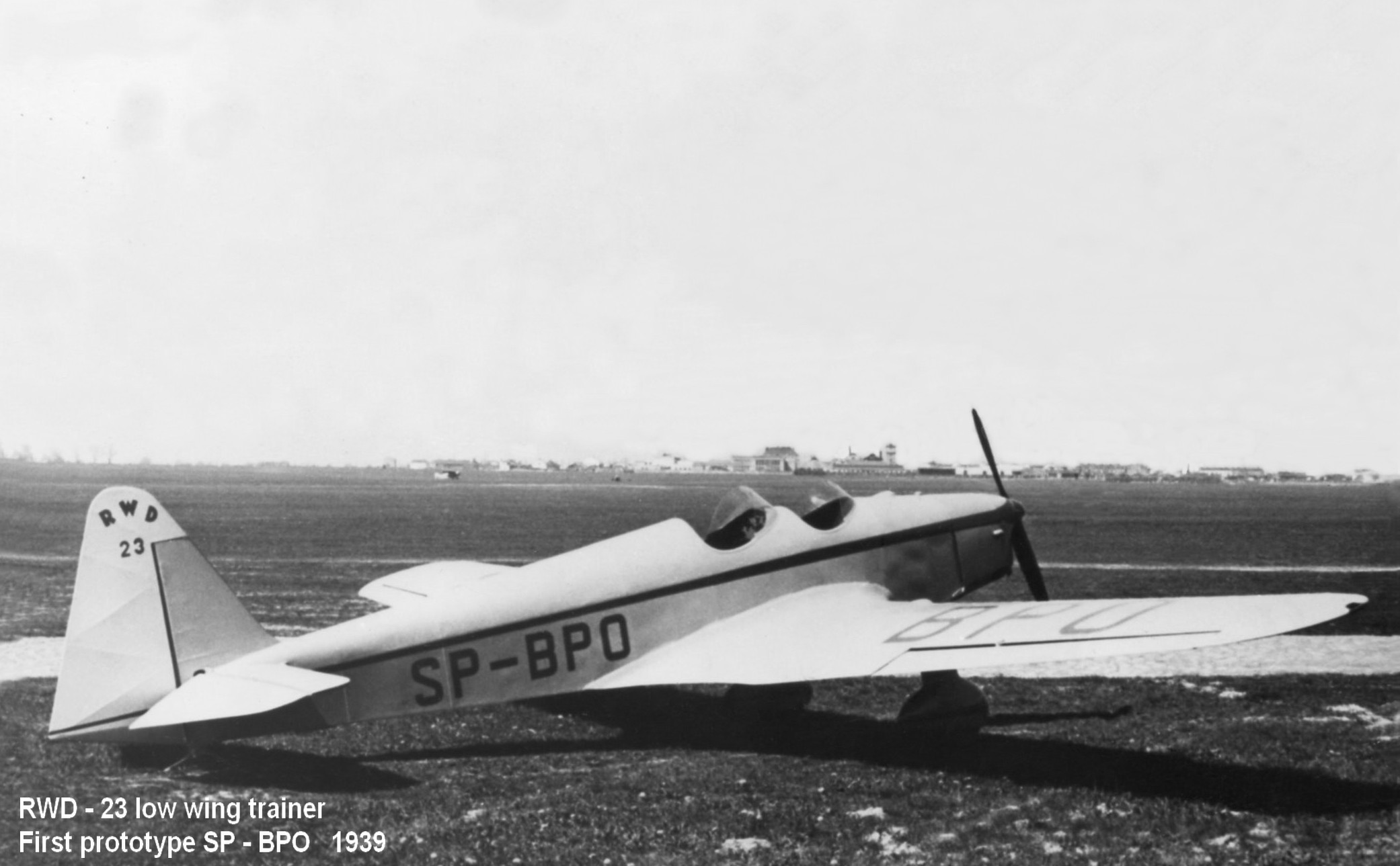 RWD 23 2 seat trainer SP - BPO